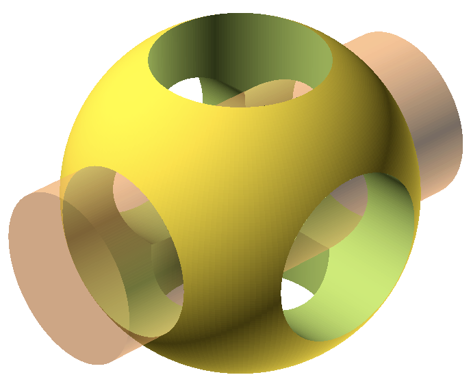 OpenSCAD logo